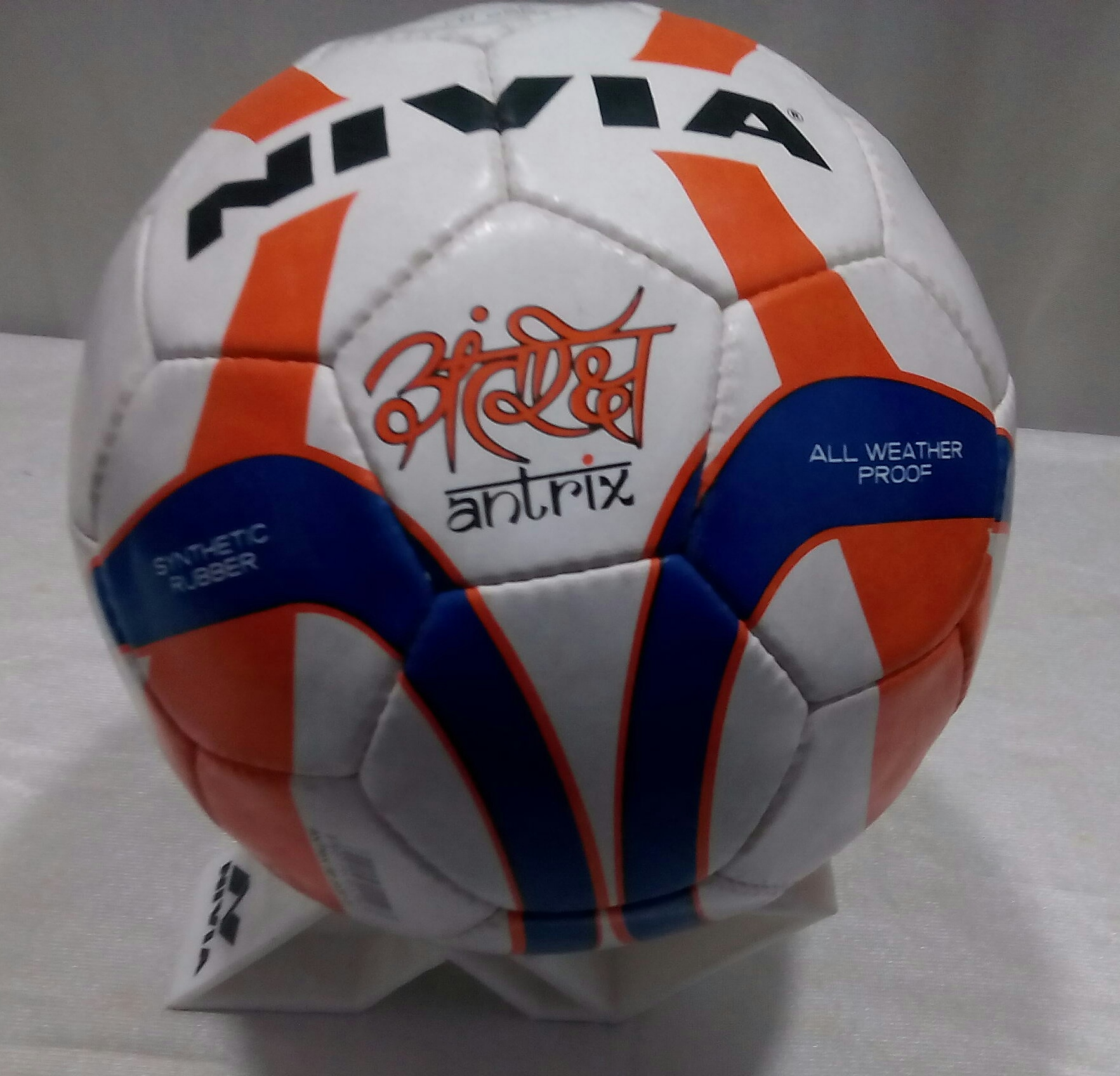 Nivia's Antrix football was the official match ball for the Goa Super Cup